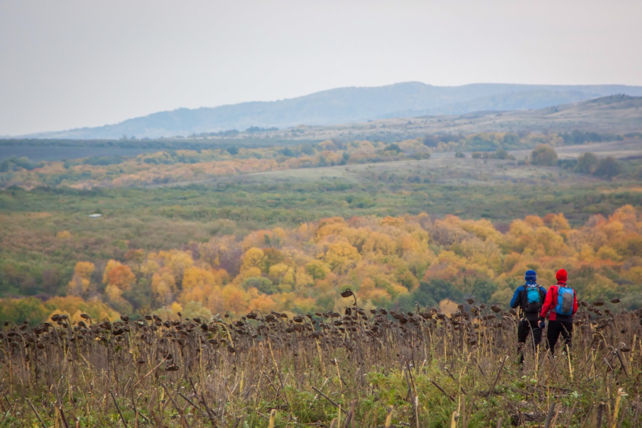 Team at course on 10th Russian Rogaining Championships 2013, Khvalynsk, Saratov Oblast, Russia, 5 October 2013.